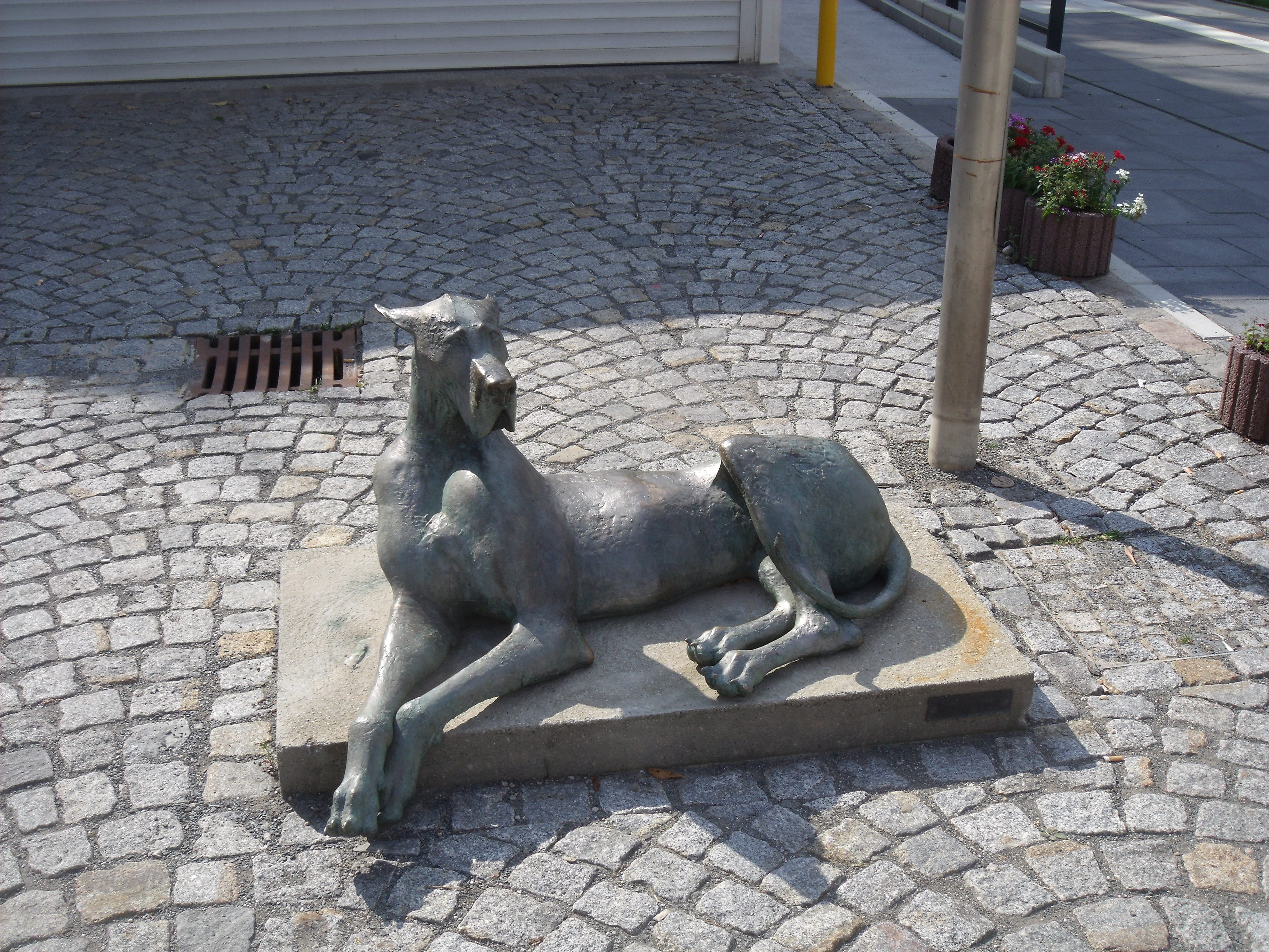 Sculpture Dogge by Volkmar Kühn, Hinter der Mauer, Gera, Germany. By the time of the photograph, the sculpture's right front paw, which had been damaged by vandalism in the same year, had been restored.